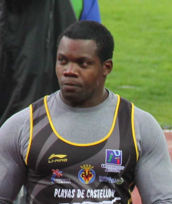 Frank Casañas at the 2011 Bislett Games